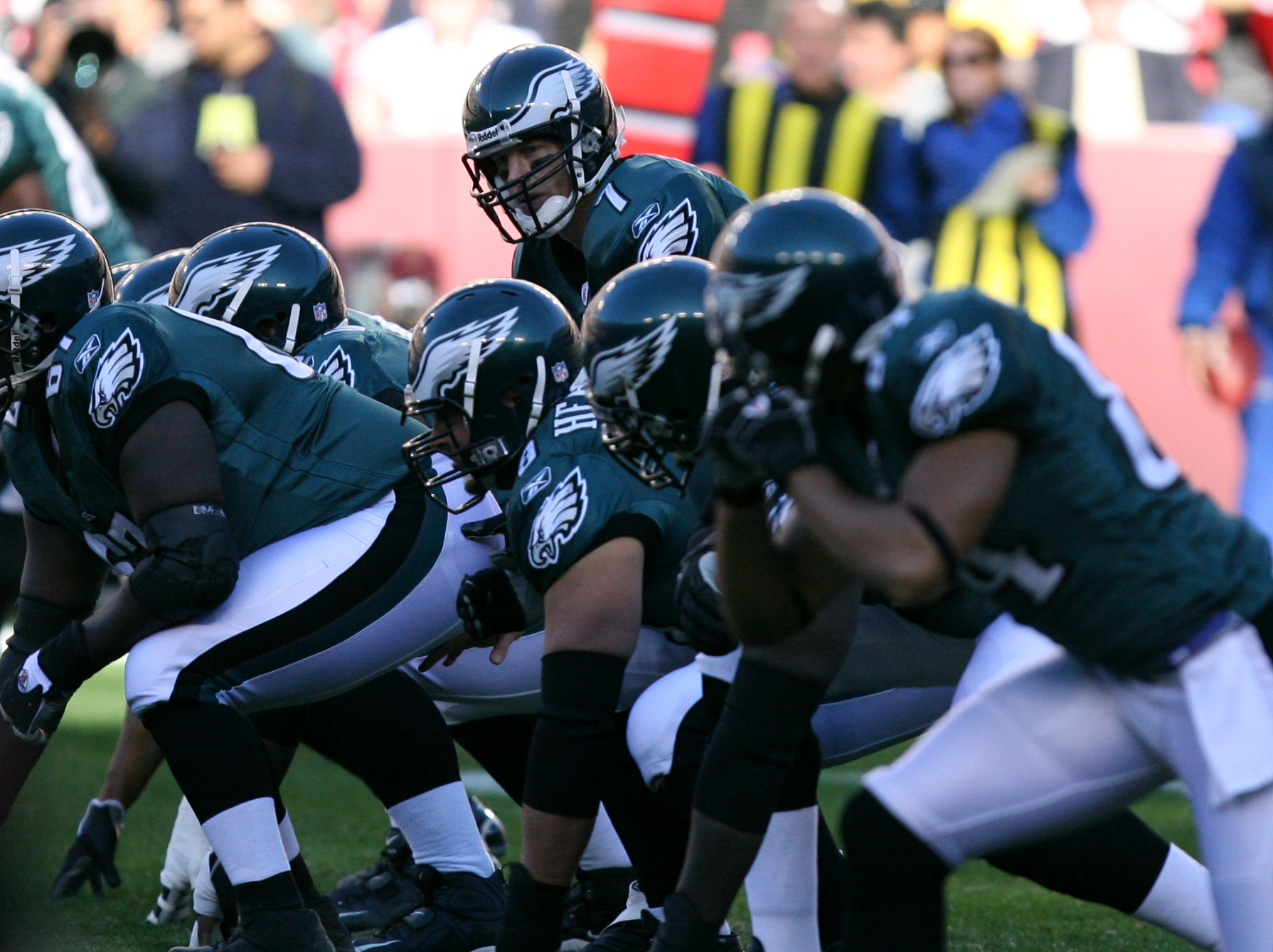 Jeff Garcia of the Philadelphia Eagles takes a snap in a game against the Washington Redskins on December 12, 2006